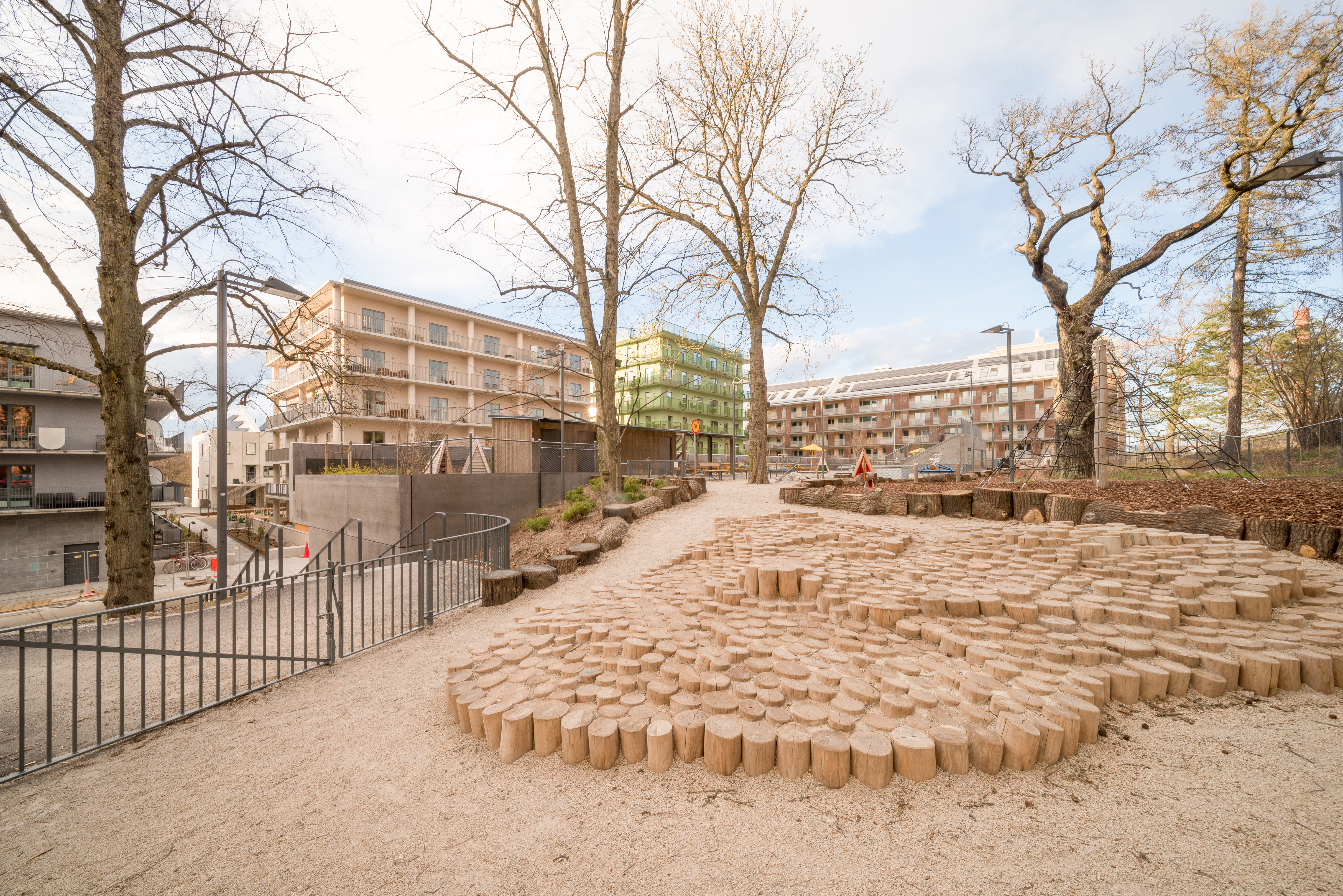 Kontorsparken is a new park in Norra Djurgårdsstaden, Stockholm.